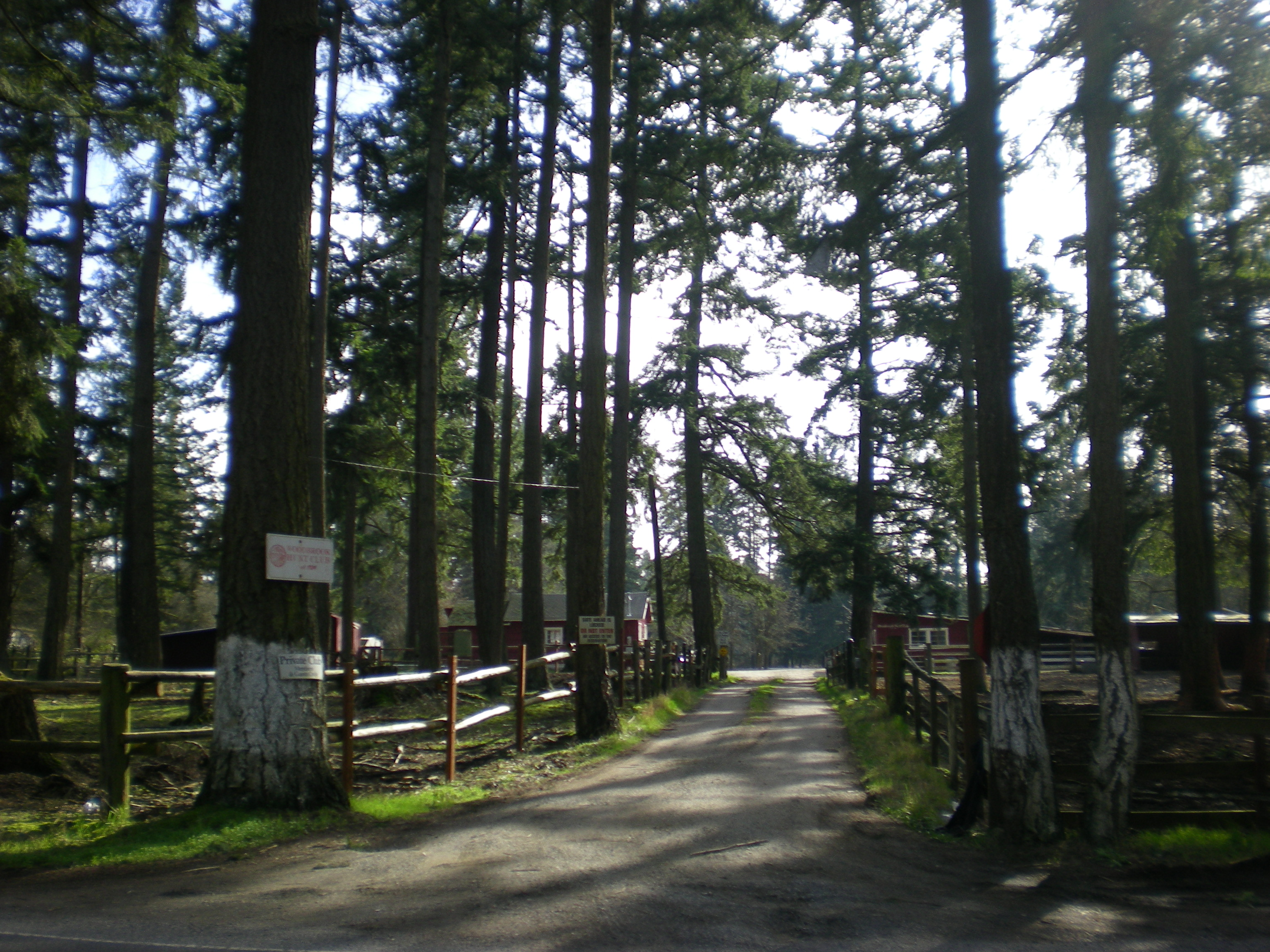 Woodbrook Hunt Club in Lakewood, Washington